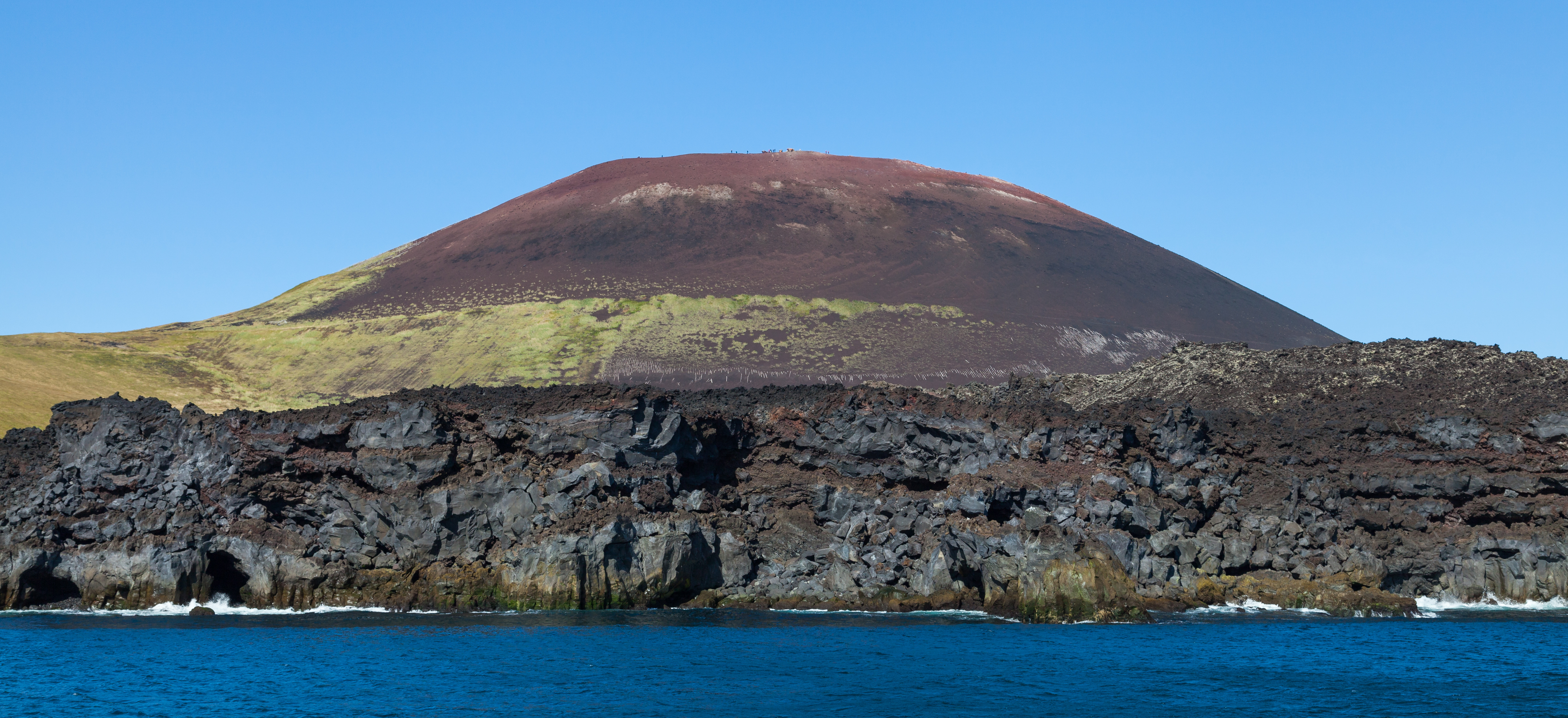 Eldfell, Heimaey, Westman Islands, Suðurland, Iceland